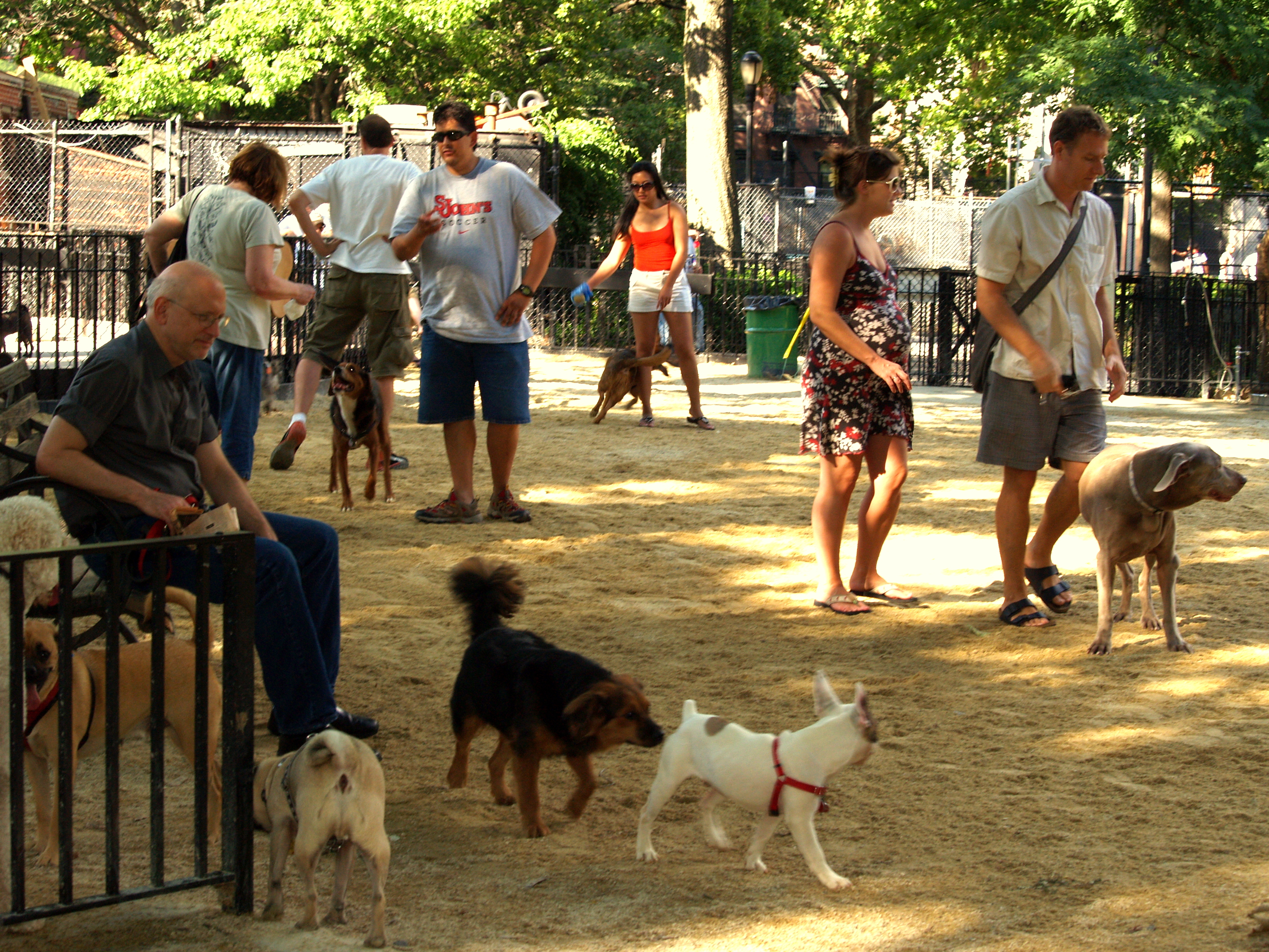 The Tompkins Square Dog Run was recently named by Dog Fancy magazine as one of the top five dog parks in the United States.. It is currently slated to undergo a $450,000 renovation, much of which will be funded by the New York City government, and a large portion of which will be raised by the efforts of the dog run patrons.